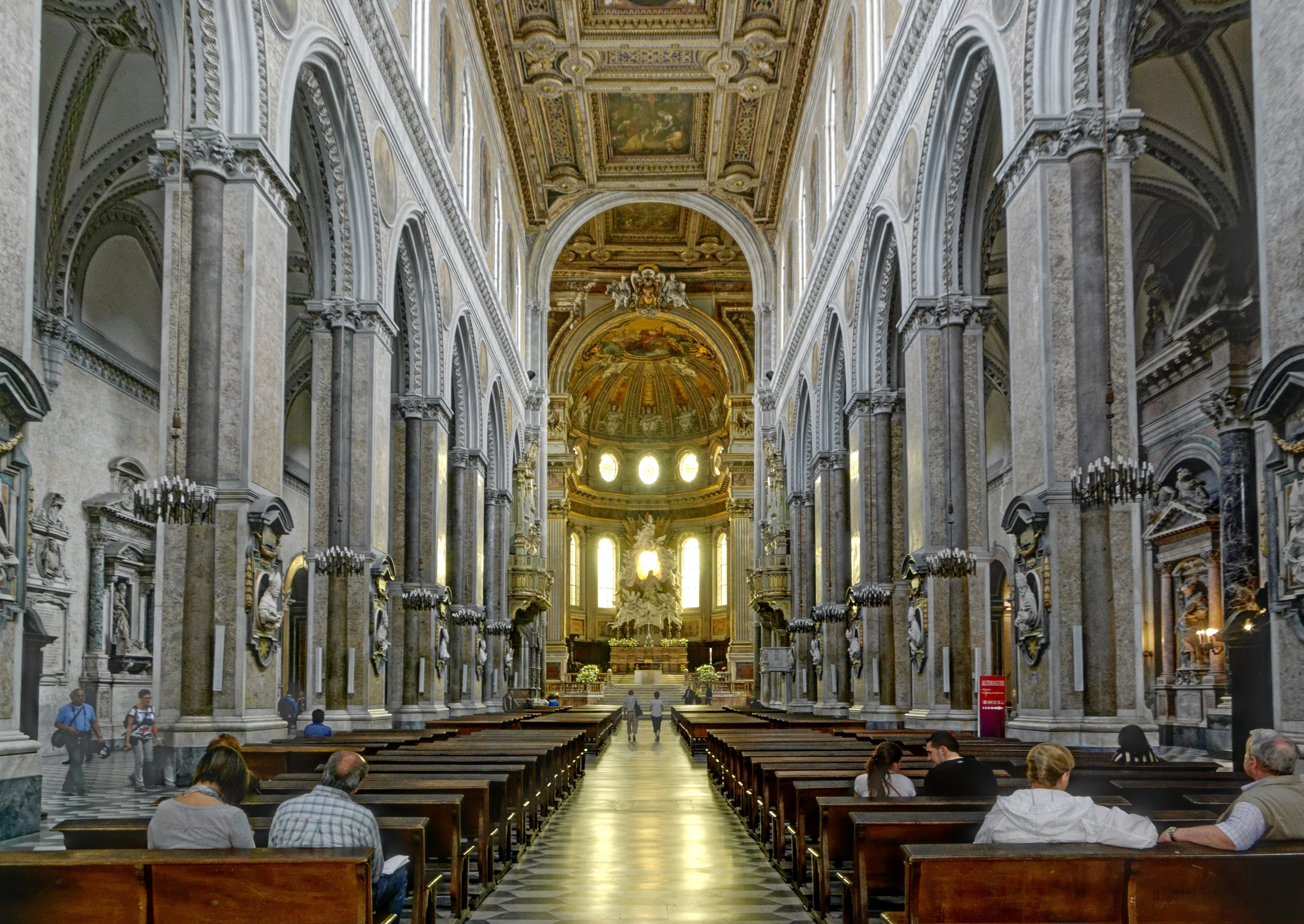 Naples, cathedral